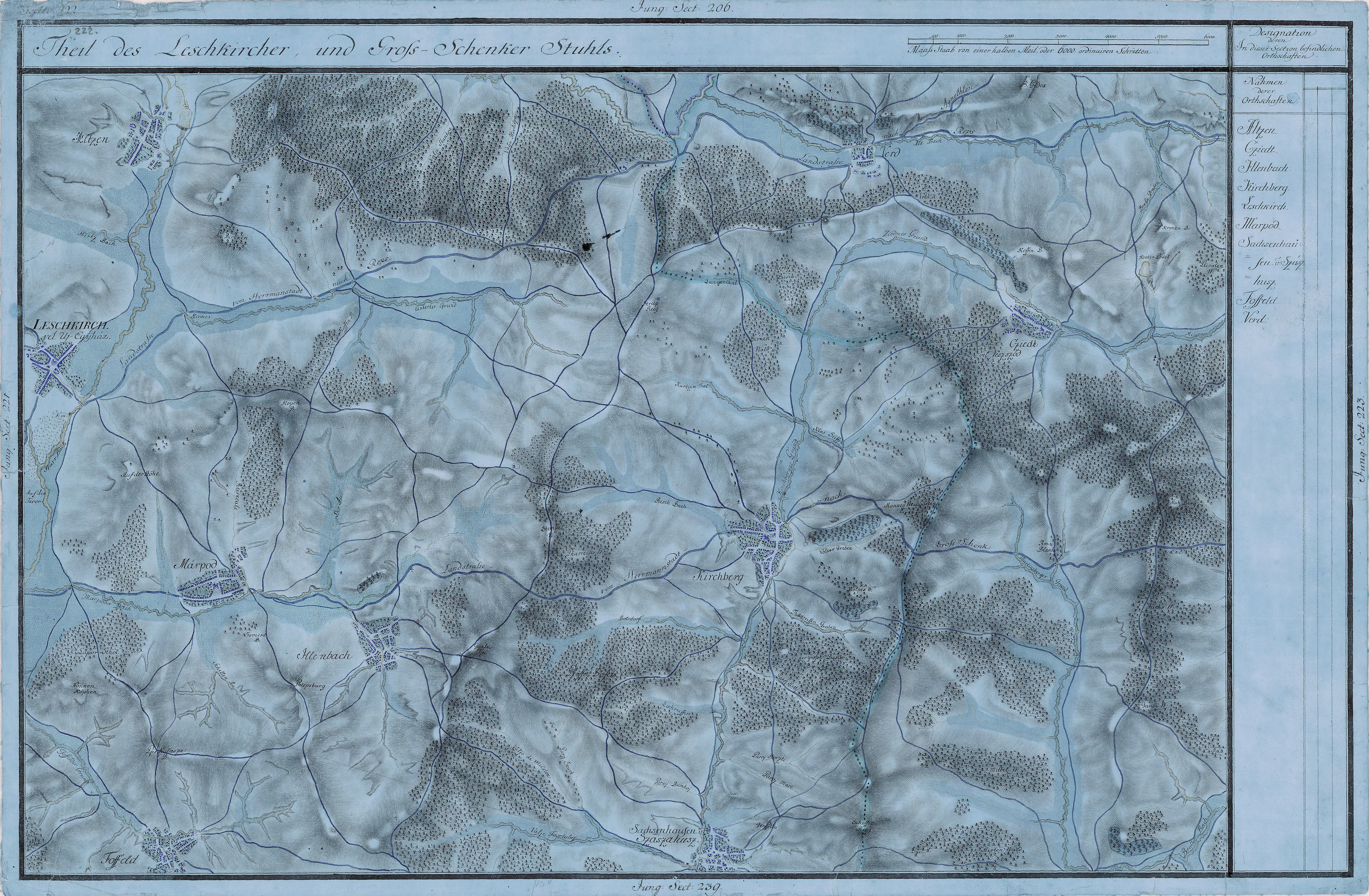 Grand Duchy of Transylvania, 1769-1773. Josephinische Landaufnahme pg.222